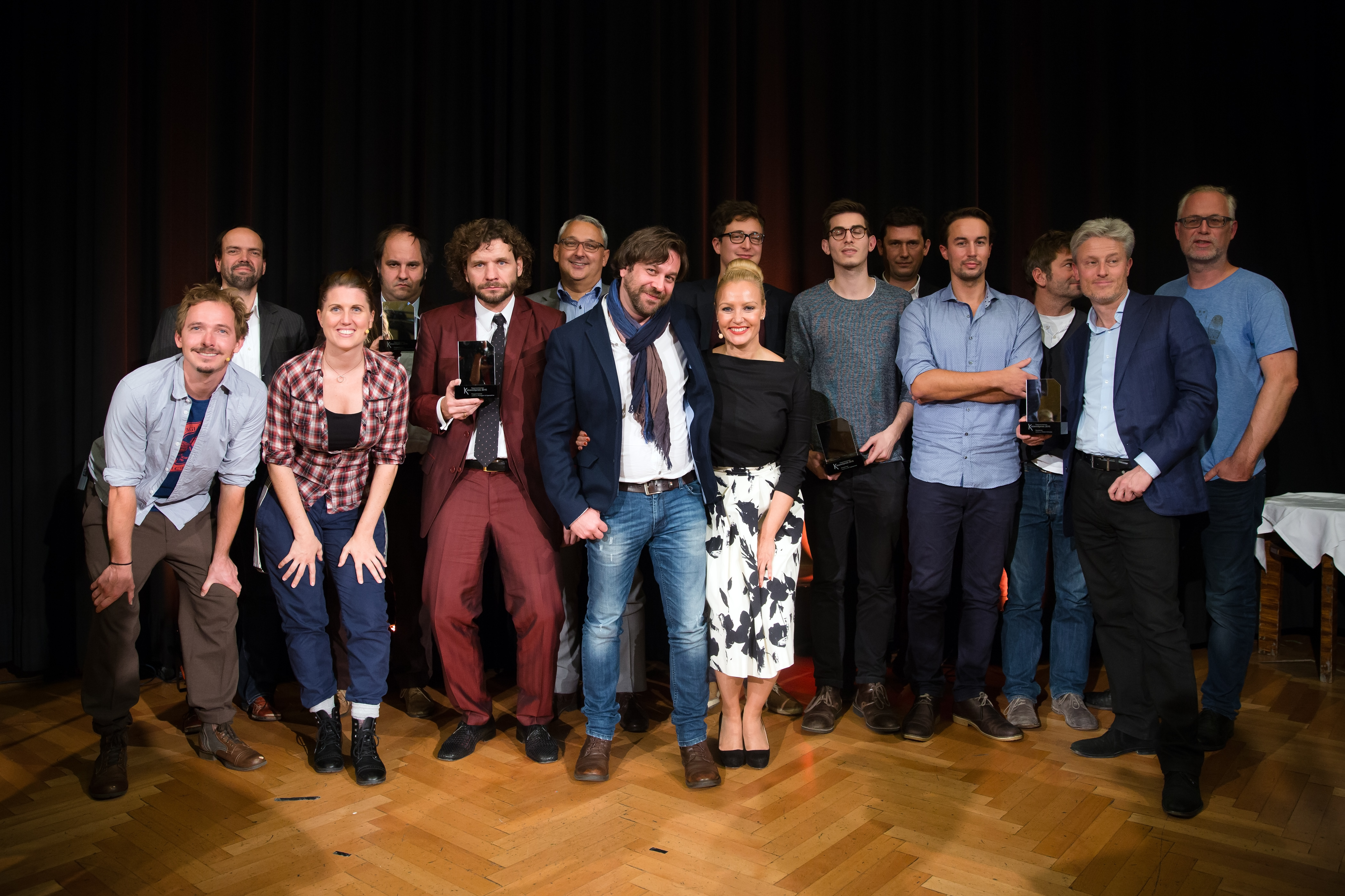 Kaufmann-Herberstein (Florian Kaufmann and Therese Herberstein), maschek., Matthias Egersdörfer, Martin Puntigam, Thomas Landgraf, Verena Scheitz, Die Tagespresse (Fritz Jergitsch, Sebastian Huber and Jürgen Marshal), Rupert Henning, Florian Scheuba a.o. at the Austrian Cabaret Award 2015 at Urania in Vienna, Austria.